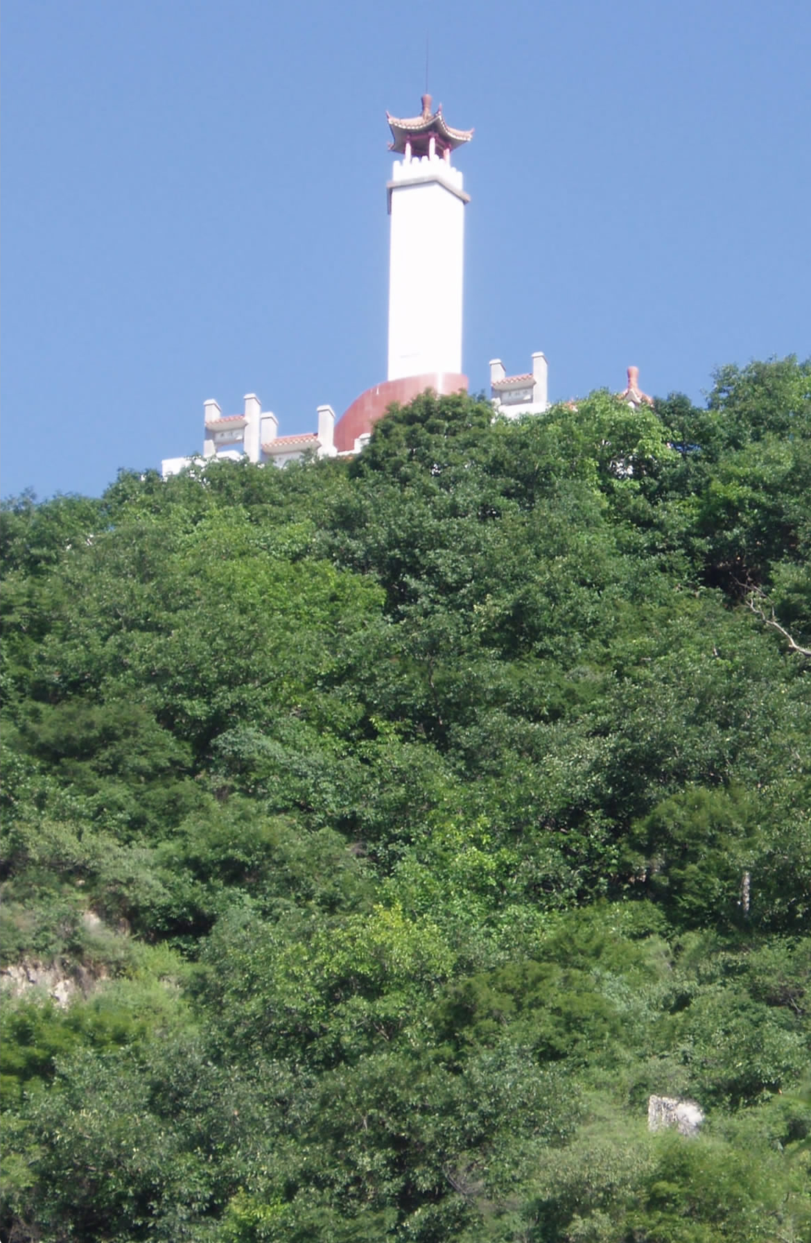 Langya mountain Five Heroic Men Memerial Tower (狼牙山五壮士纪念塔)